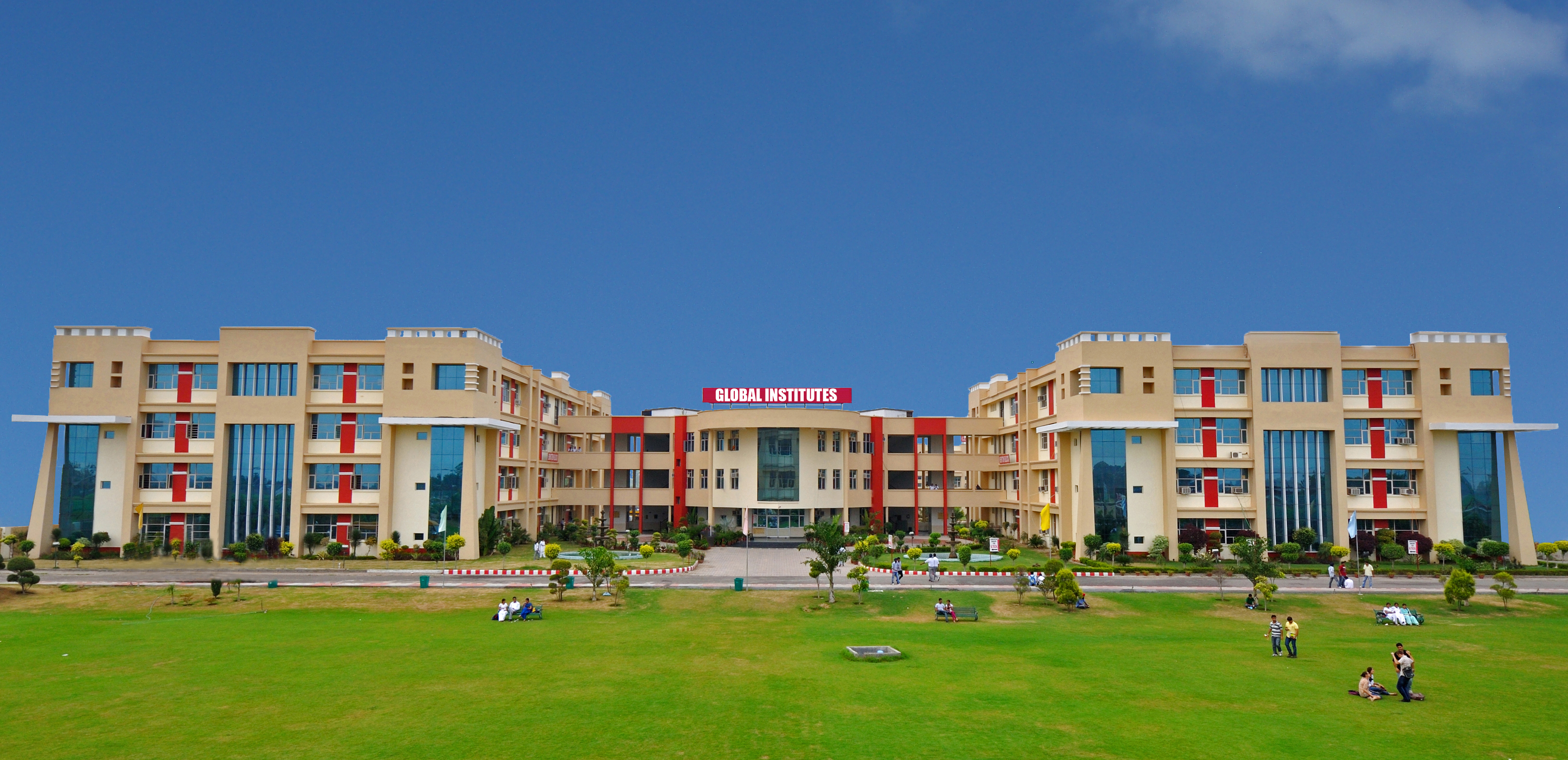 Photo of Global Institutes' Main Building